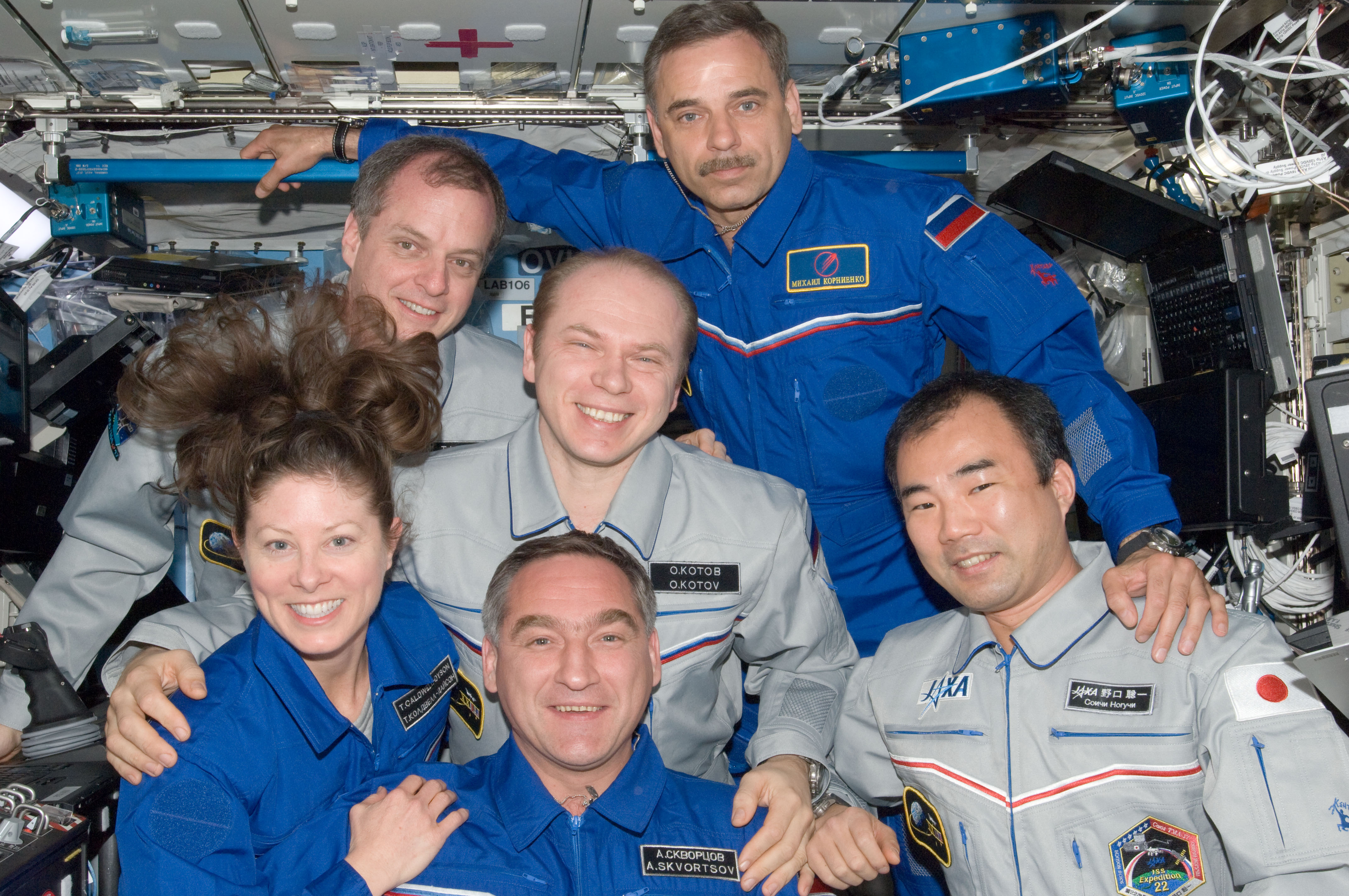 Expedition 23 crew members pose for a in-flight crew portrait in the Destiny laboratory of the International Space Station while space shuttle Discovery (STS-131) remains docked with the station. Russian cosmonaut Oleg Kotov, commander, is at center. Also pictured clockwise (from bottom center) are Russian cosmonaut Alexander Skvortsov, NASA astronauts Tracy Caldwell Dyson and T.J. Creamer, Russian cosmonaut Mikhail Kornienko and Japan Aerospace Exploration Agency (JAXA) astronaut Soichi Noguchi, all flight engineers.